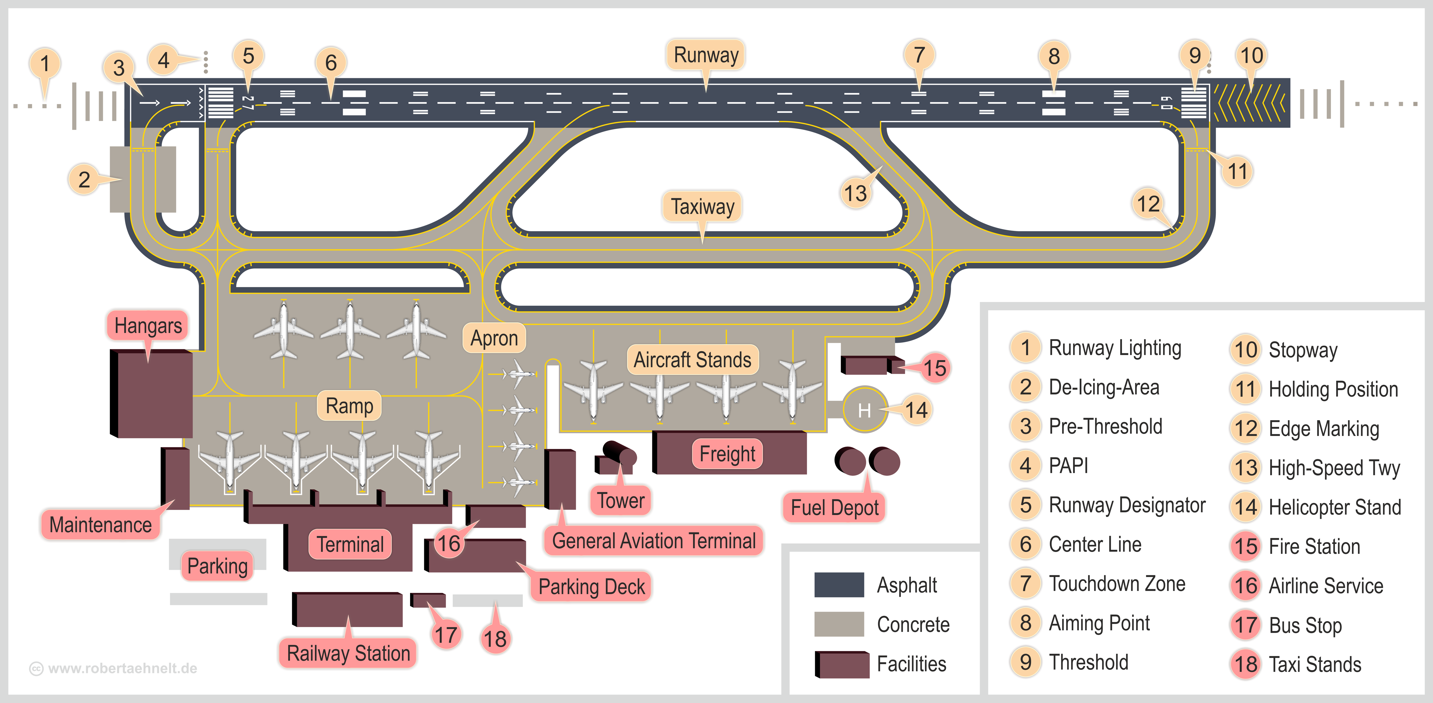 A diagram showing the infrastructure of an airport.